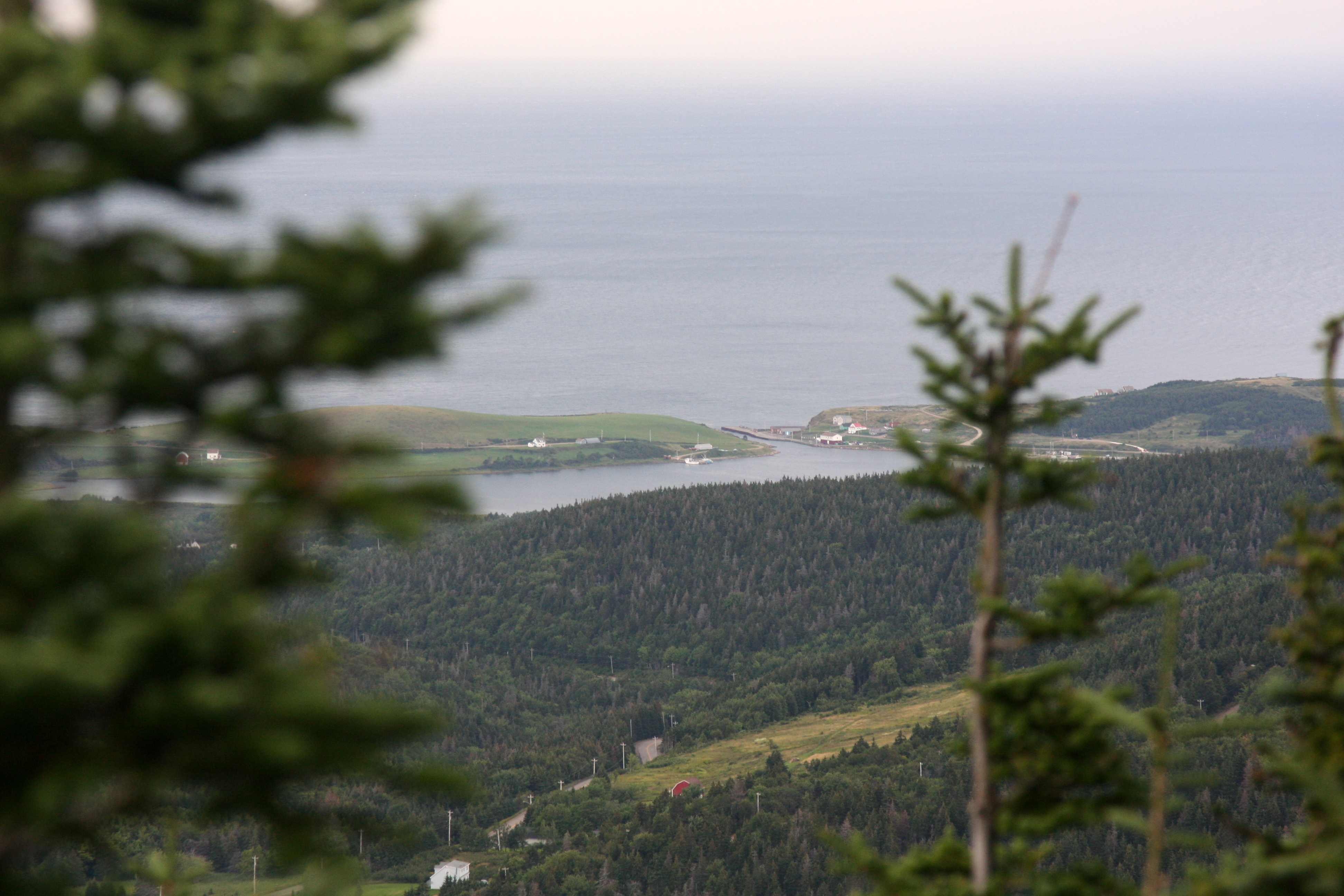 Wilkie Sugar Loaf is a Canadian peak in the Cape Breton Highlands near the community of Sugar Loaf in the province of Nova Scotia. Wilkie Sugar Loaf is a forested pyramid rising from the shore of Aspy Bay, 10 kilometres (6.2 mi) north of the Cabot Trail. There are few stand-alone mountaintops in Nova Scotia, but one of these is Wilkie Sugar Loaf, climbing to more than 400 metres/yards above sea level in less than 1.5 kilometres (0.93 mi). This peak belongs to the North Mountain range of hills bordering the Aspy Fault but has been separated from the rest of the ridge by the deep ravines cut by Wilkie and Pollys brooks.